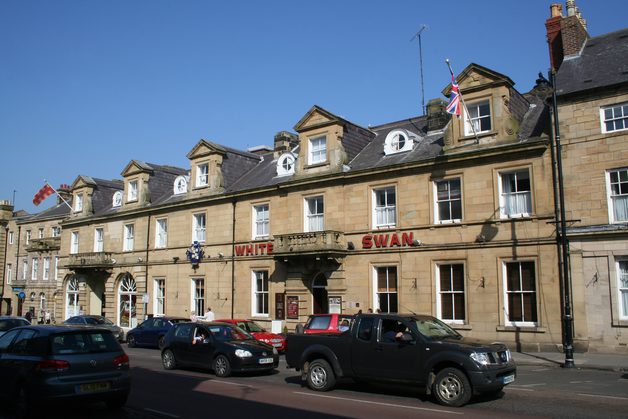 Exterior of the White Star Hotel, Alnwick